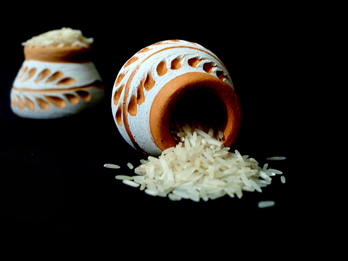 biryani